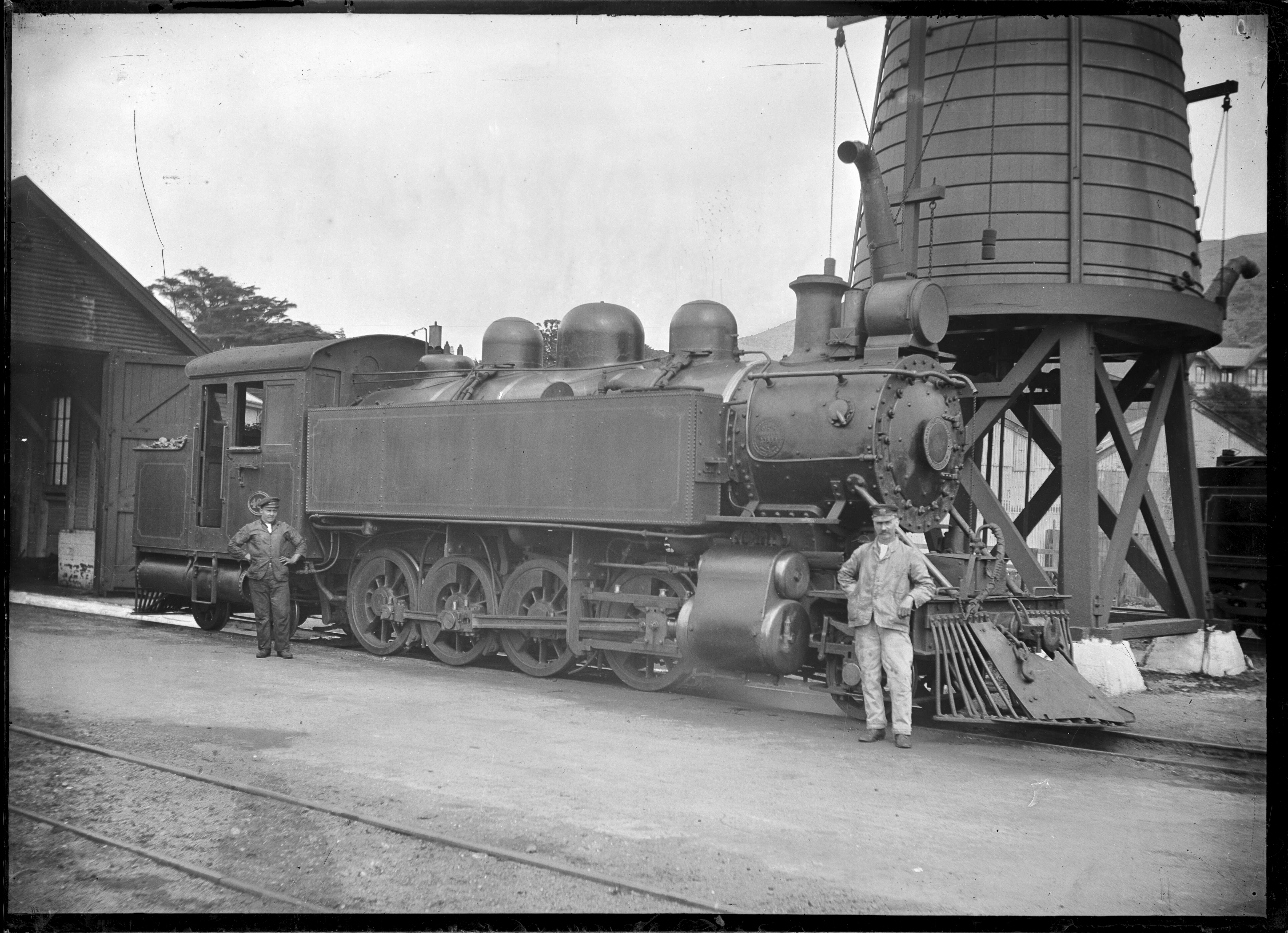 Steam locomotive 466, Wj class, type 2-8-4T, built by Baldwin. Photograph taken by Albert Percy Godber between 1904 and 1928. Location unknown.